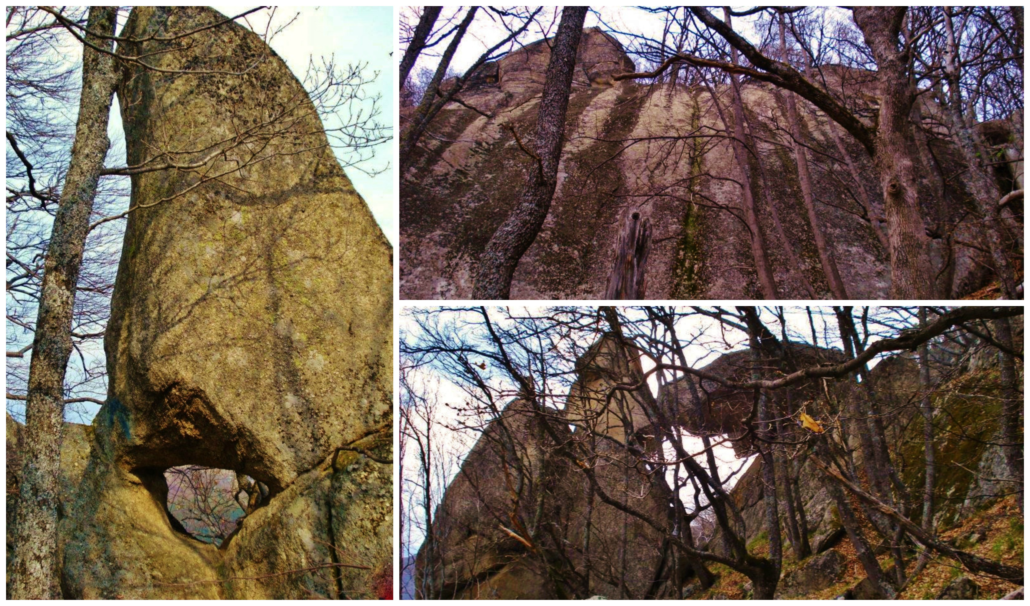 Kozi Gramadi Megalithic Sanctuary Starosel Bulgaria